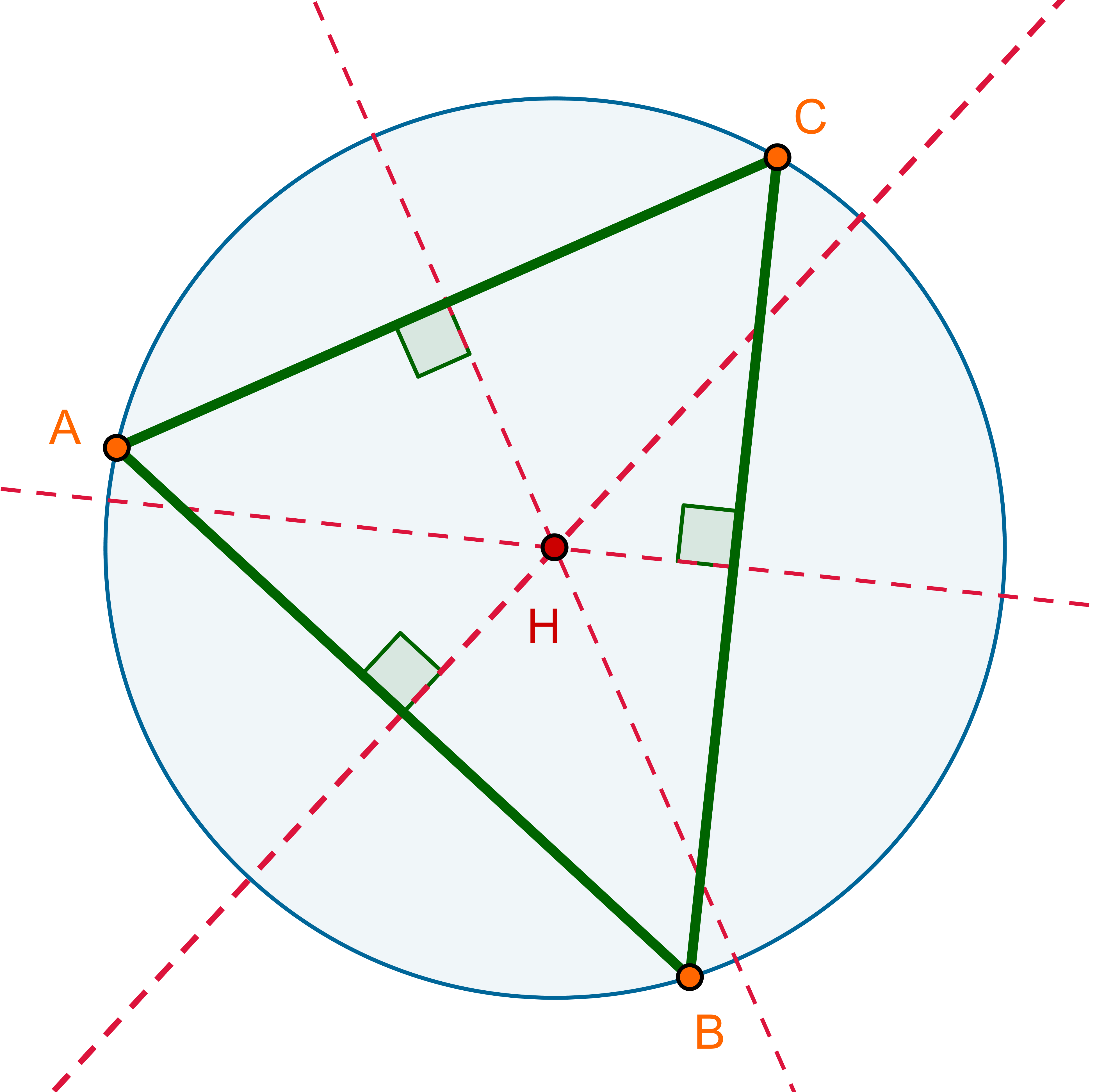 Line segment AB bisector, point of bisector has equal distance to endpoints, bisectors meets on the center of surrounding circle of triangle